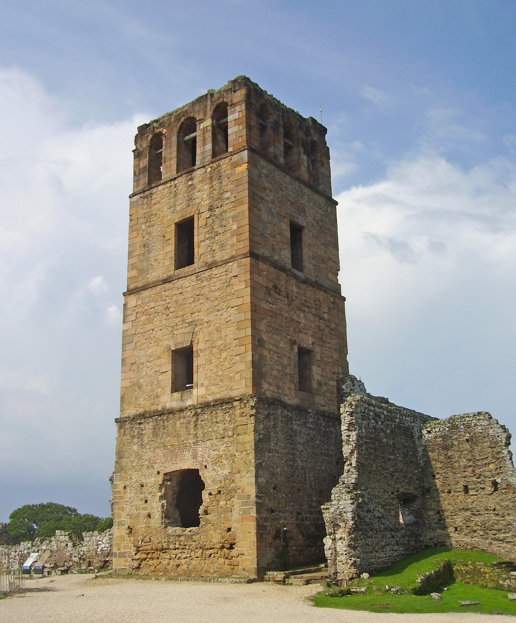 Tower of the Cathedral of Panamá Viejo. 6 September 2009